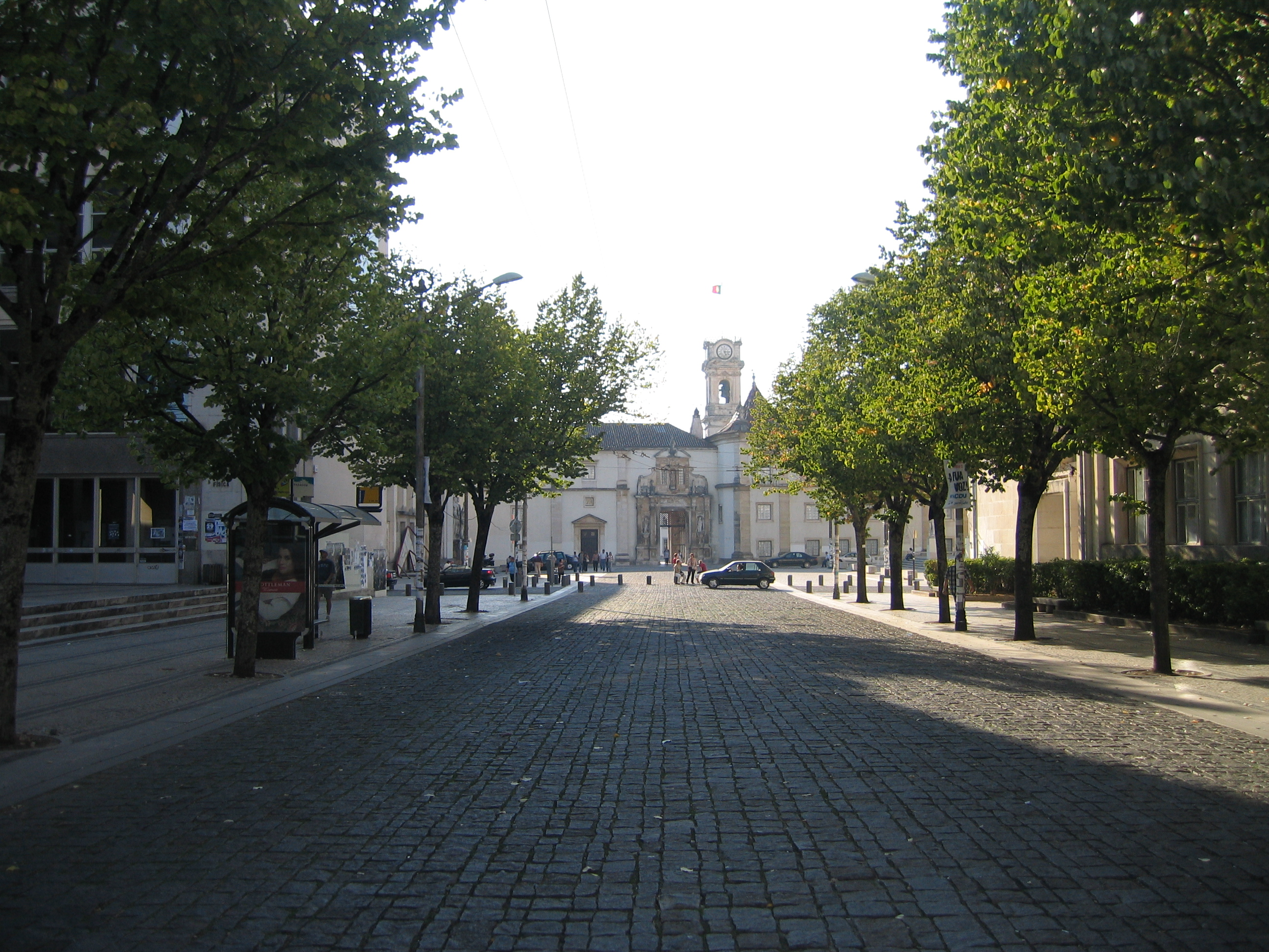 I made it myself with my own digital camera.